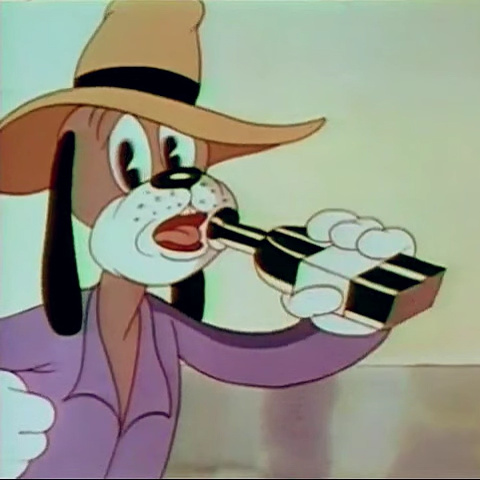 A dogface, i.e. a humanoid dog frequently found in comics and animation. This dogface appears as a background character in the 1938 film Gold Rush Daze.